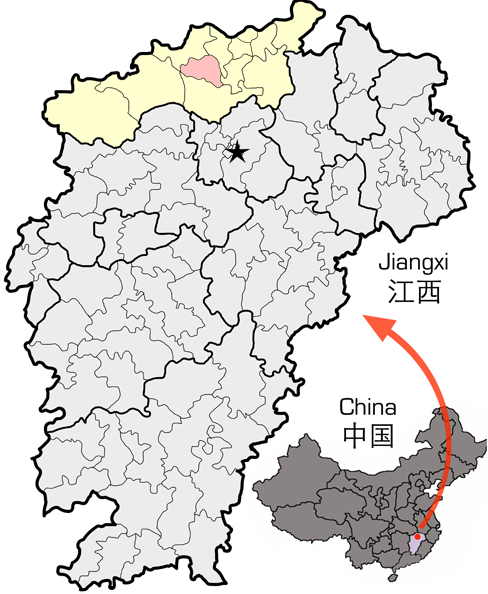 Map showing location of De'an, Jiujiang in Jiangxi Province China